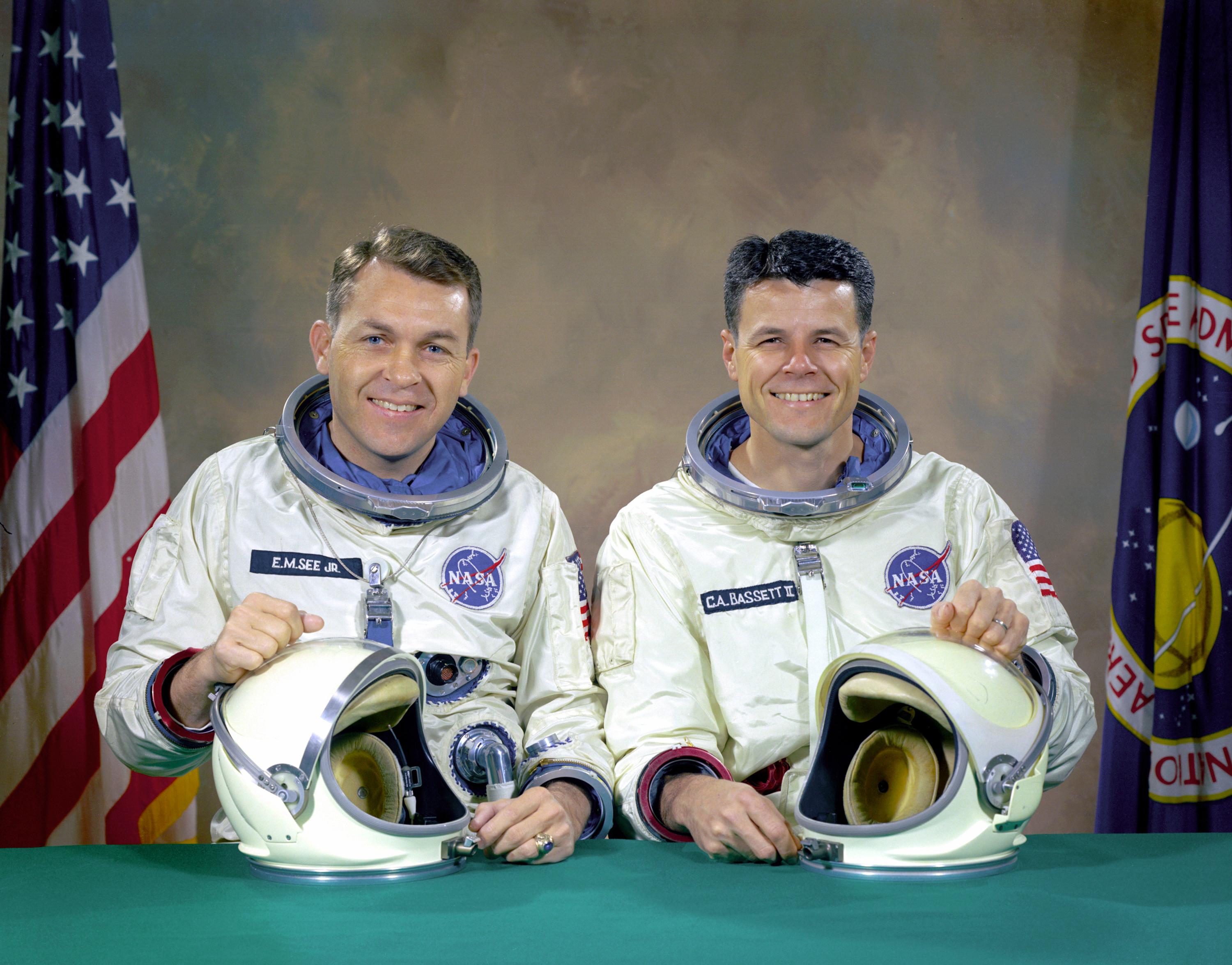 The original Gemini 9 prime crew, astronauts Elliot M. See Jr. (left), command pilot, and Charles A. Bassett II, pilot, in space suits with their helmets on the table in front of them. On February 28, 1966 the prime crew for the Gemini 9 mission were killed when their twin seat T-38 trainer jet aircraft crashed into a building in which the Gemini spacecraft were being manufactured. They were on final approach to Lambert-Saint Louis Municipal Airport when bad weather conditions hampered pilot See's ability to make a good visual contact with the runway. Noticing the building at the last second as he came out of the low cloud cover, See went to full afterburner and attempted to nose-up the aircraft in an attempt to miss the building. He clipped it and his plane crashed.